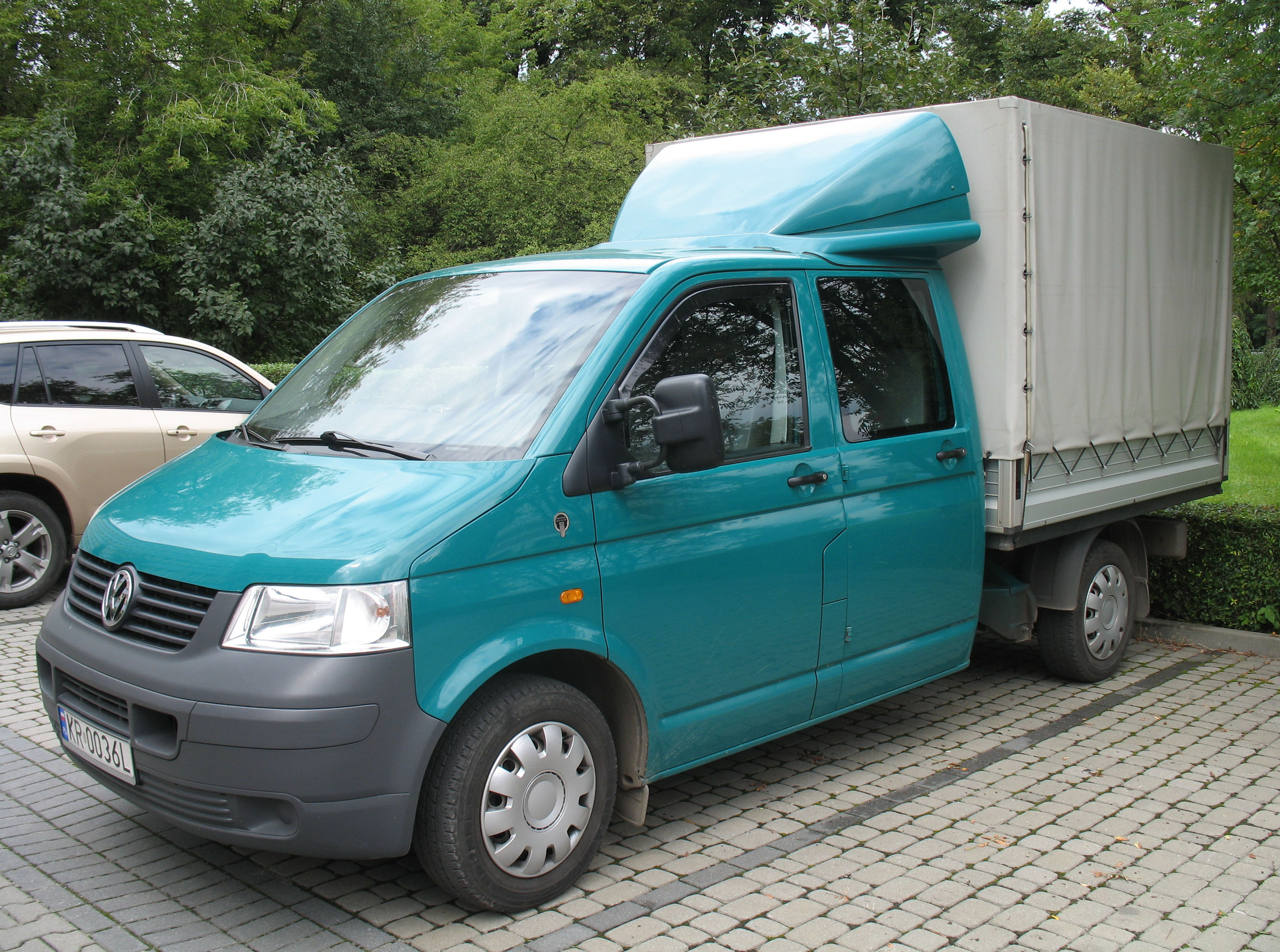 Volkswagen T5 with double cab in Kraków, Poland.